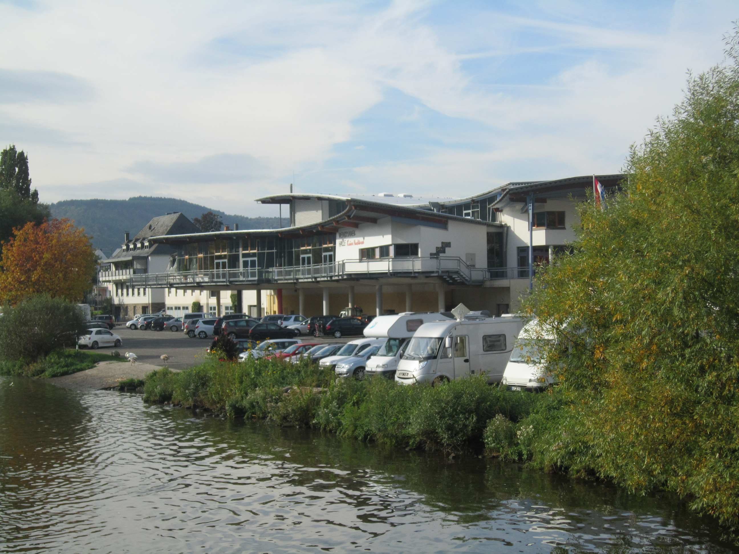 Moselle River and Kröv